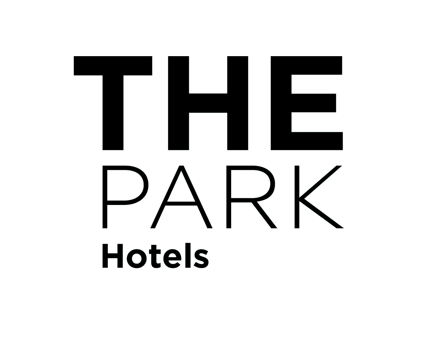 The Park Hotels Logo